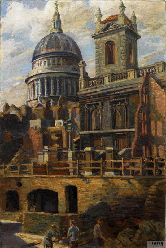 A view of St Paul's Cathedral from the open basement of a bombed building